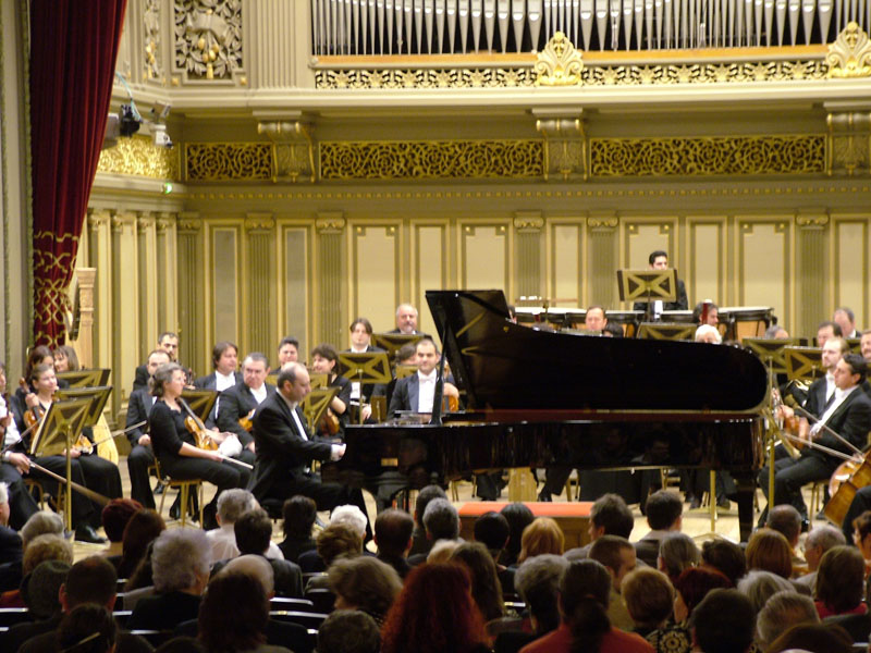 Constantin SANDU em concerto.Photo by Carlos Botelho